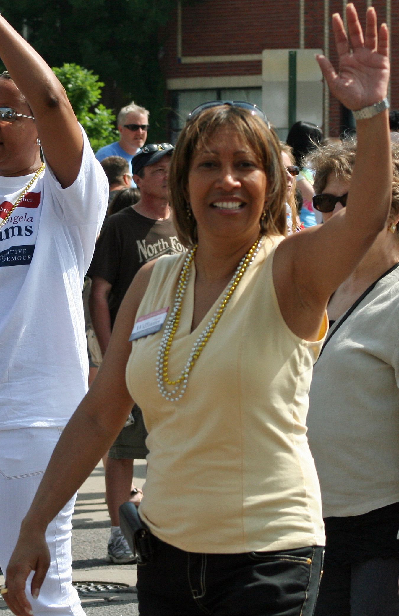 Angela Williams, a politician in the State of Colorado.